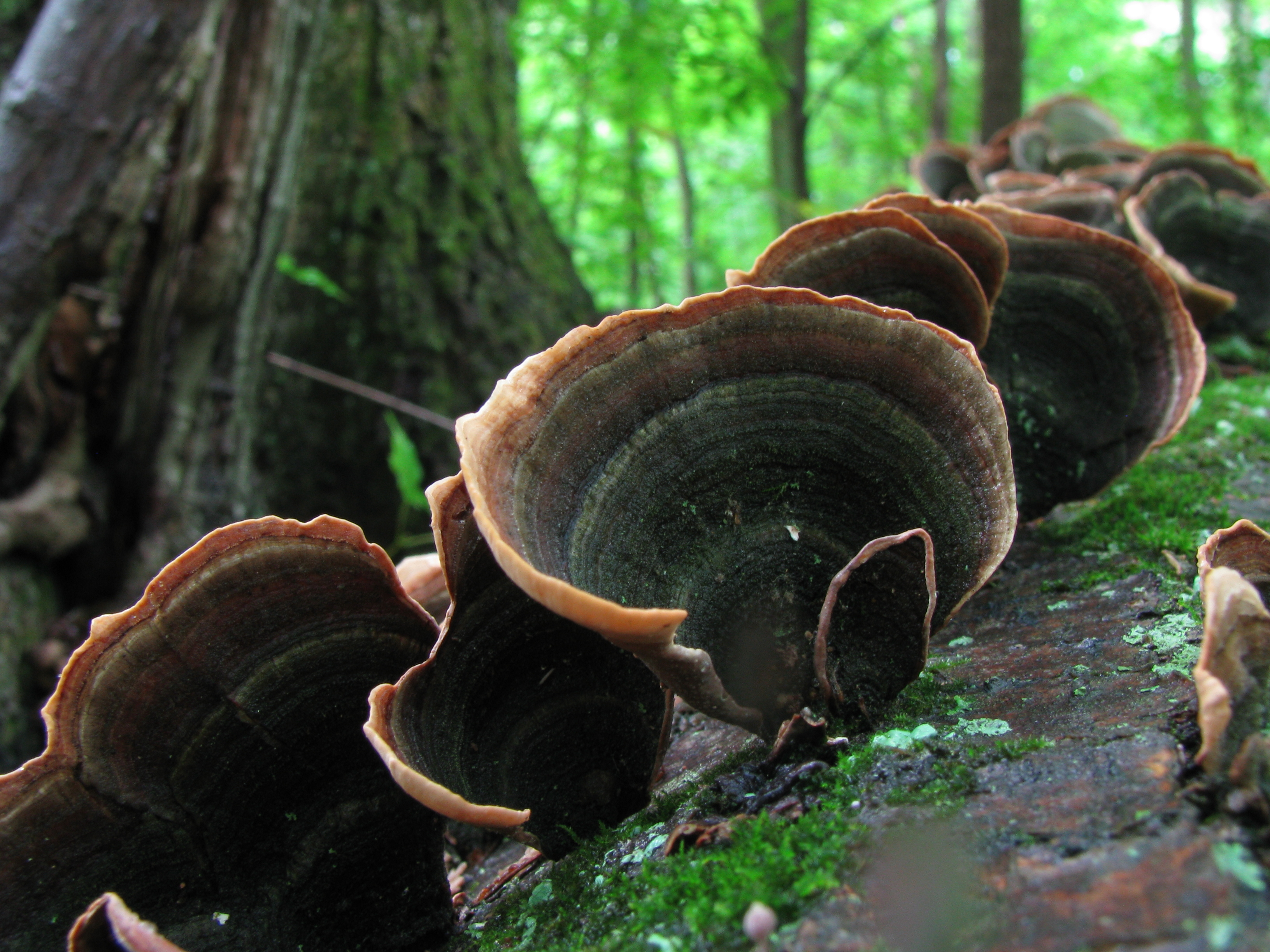 Stereum ostrea ((Blume & T. Nees) Fr.) Location: Strouds Run State Park, Athens, Ohio, USA